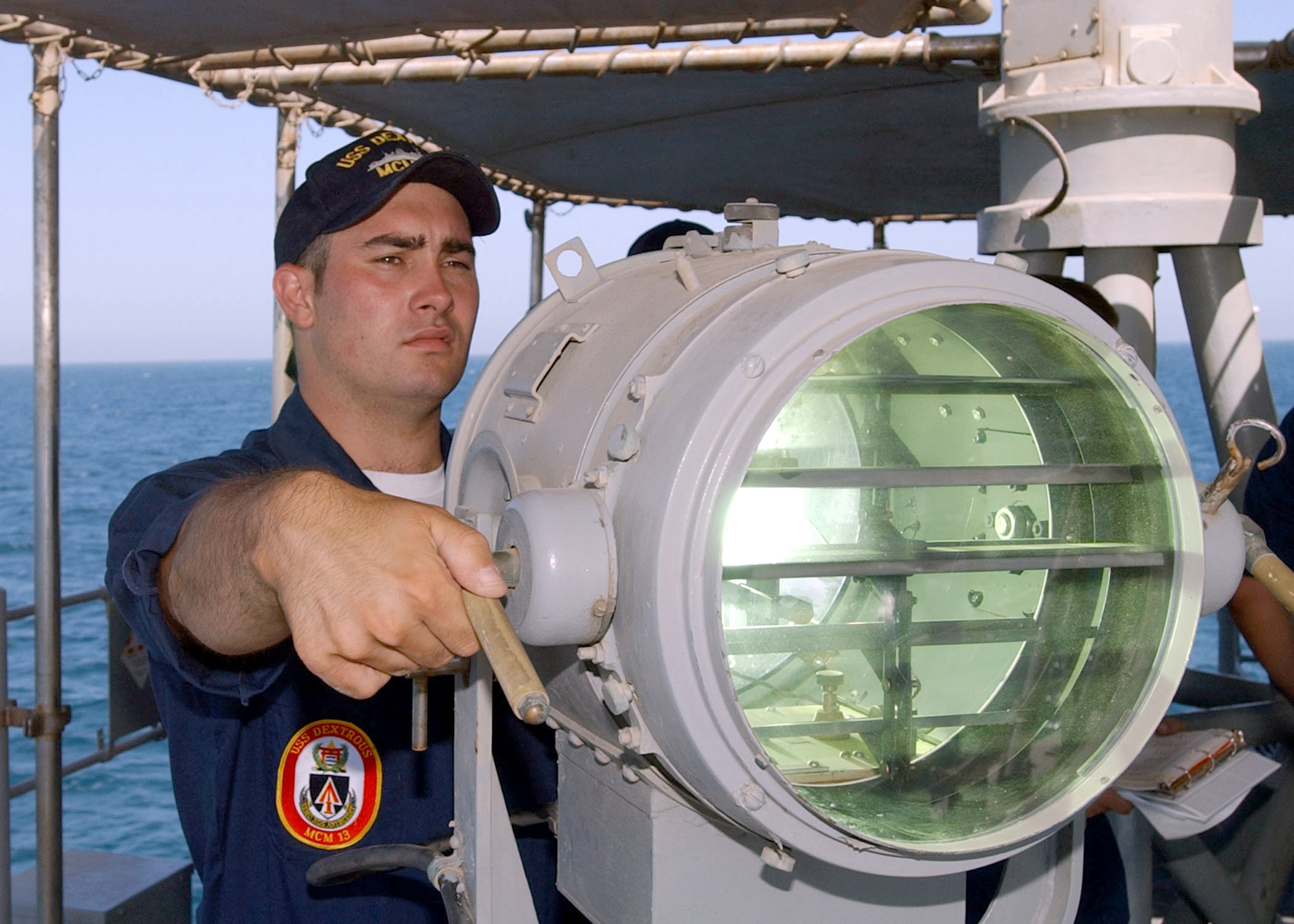 At sea aboard USS Dextrous (MCM-13) Jun. 23, 2002 -- Signalman 2nd Class Eric Palmer signals the U.S. Navy mine hunter coastal ship USS Raven (MHC 61) from the signal bridge aboard the mine countermeasures ship. The mine hunter coastal ship USS Raven (MHC 61), and Explosive Ordnance Disposal Mobile Unit Six, Detachment Twelve (EODMU-6) joined Dextrous in a mine countermeasures exercises in the Arabian Gulf region, while deployed in support of Operations Enduring Freedom and Southern Watch. U.S. Navy photo by Photographer’s Mate 2nd Class Eric Lippmann (RELEASED)